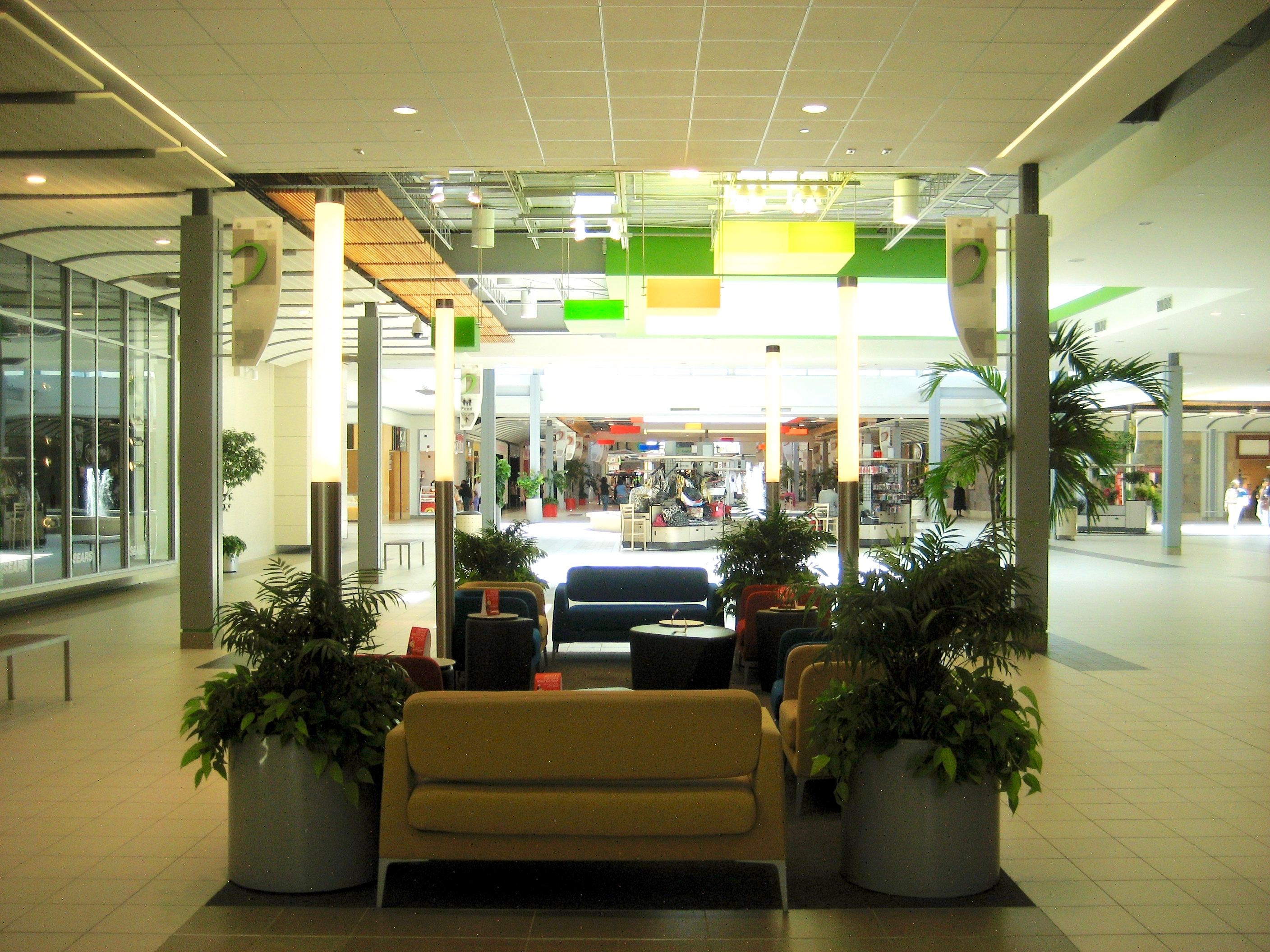 Oakwood shopping mall, Terrytown, Louisiana. Interior.